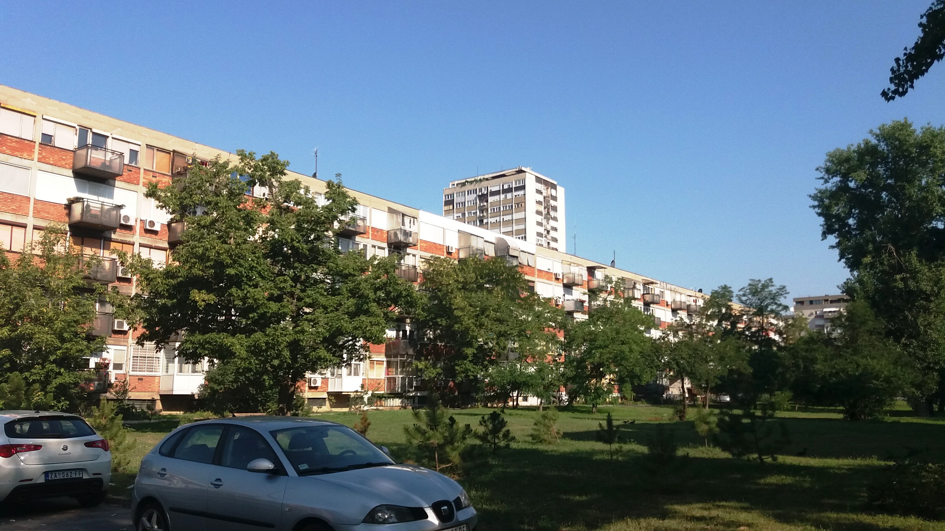 Block 11c, New Belgrade